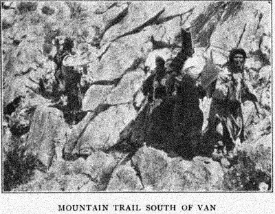 Armenian leaving the battle zone through mountain trails Siege of Van.